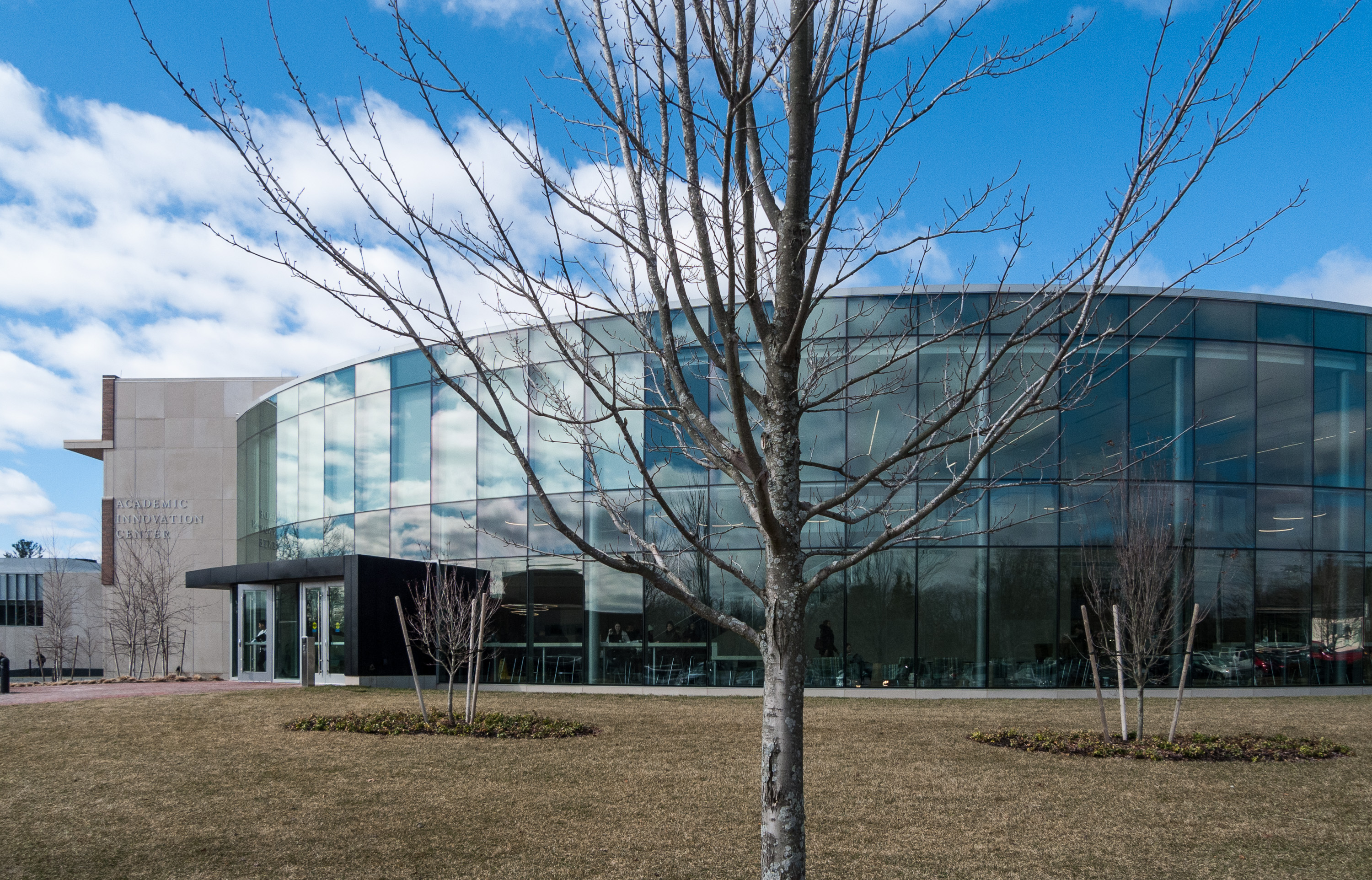 Bryant University, Smithfield, Rhode Island